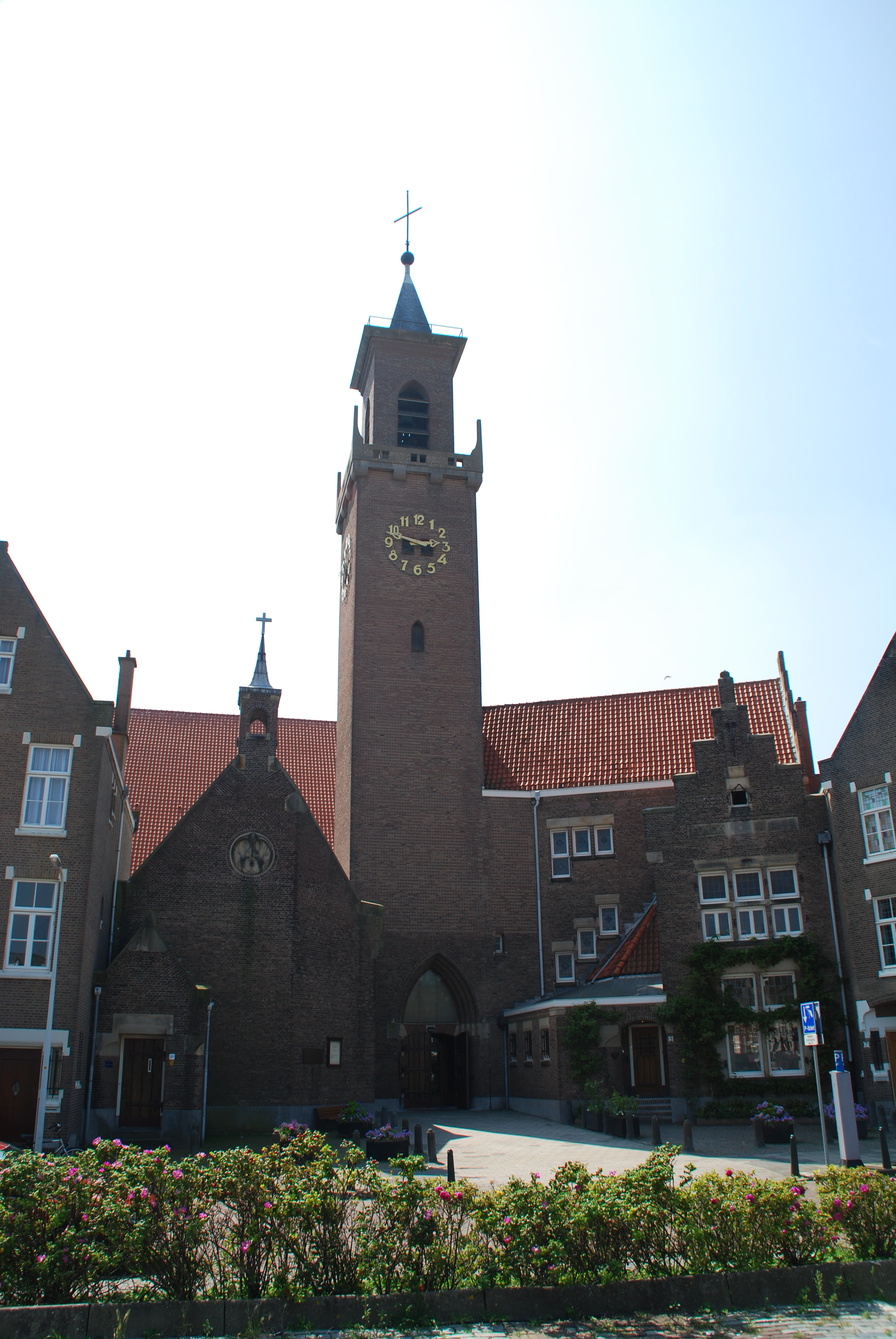 Onze-Lieve-Vrouw van Lourdeskerk, built 1913-1965 by Alexander Kropholler